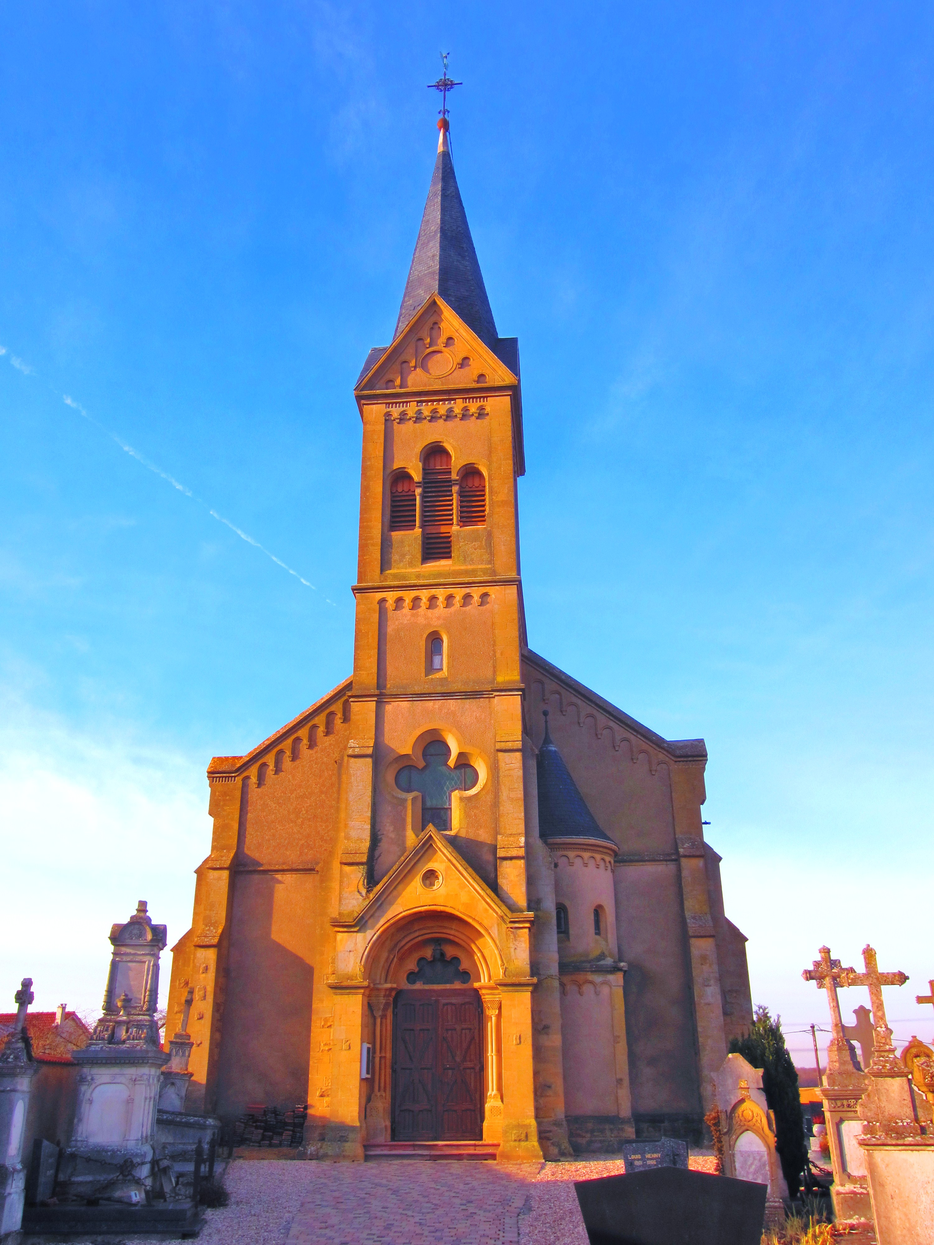 Vry church